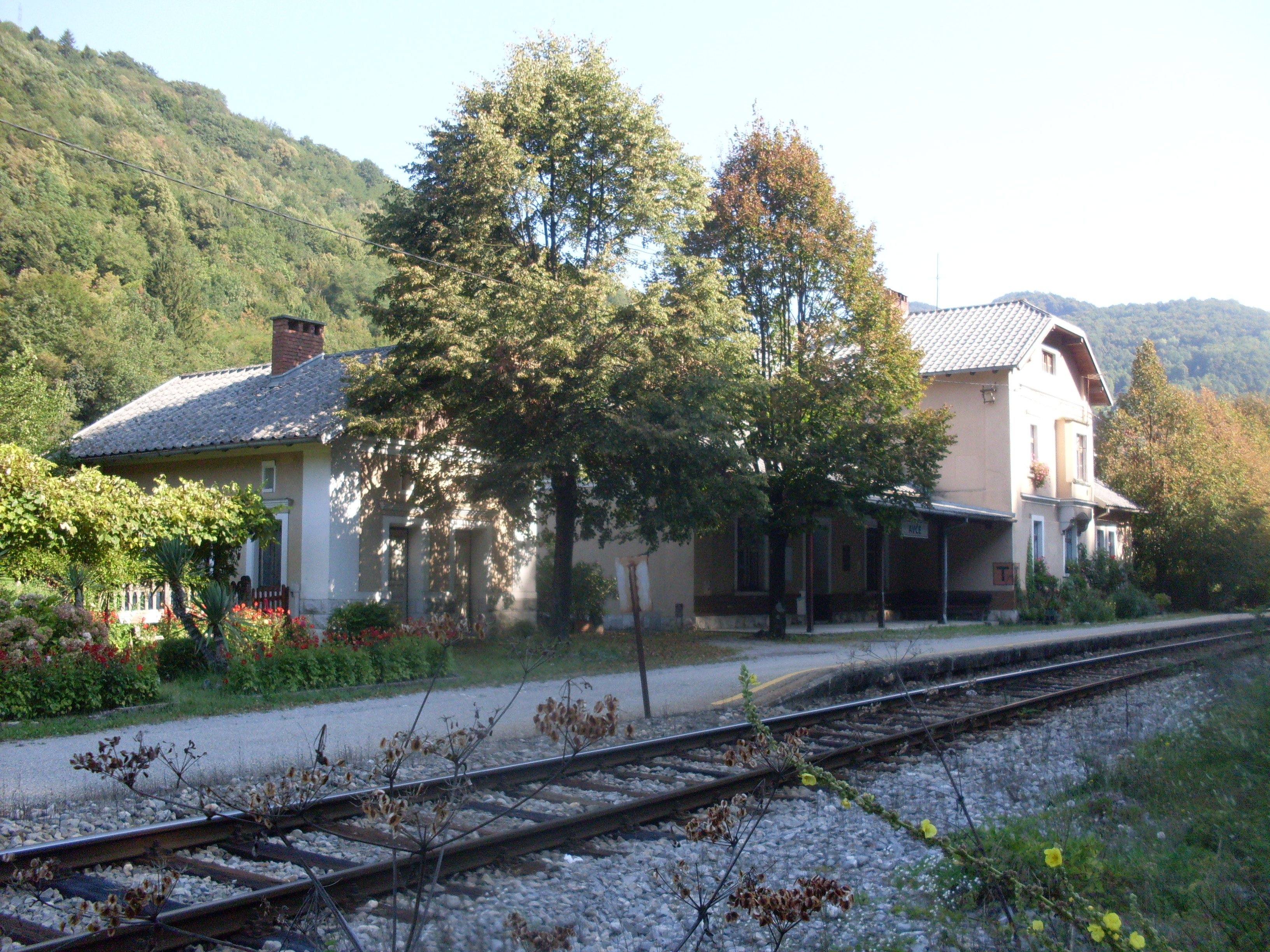 Railway halt Avče, located between Avče and RočinjSlovenščina: Železniško postajališče Avče, ki se nahaja med Avčami in Ročinjem